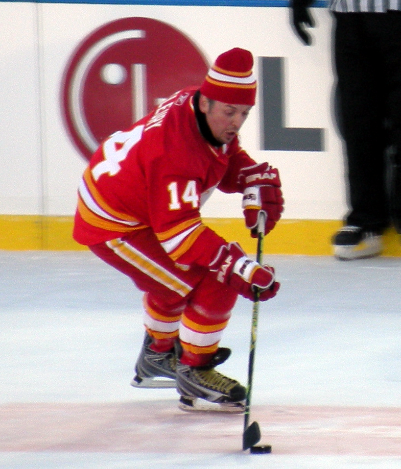 Former NHL player Theoren Fleury handles the puck during the alumni game at the 2011 Heritage Classic in Calgary.